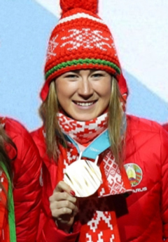 Medal winners of the XXIII Olympic Winter Games in Pyeongchang